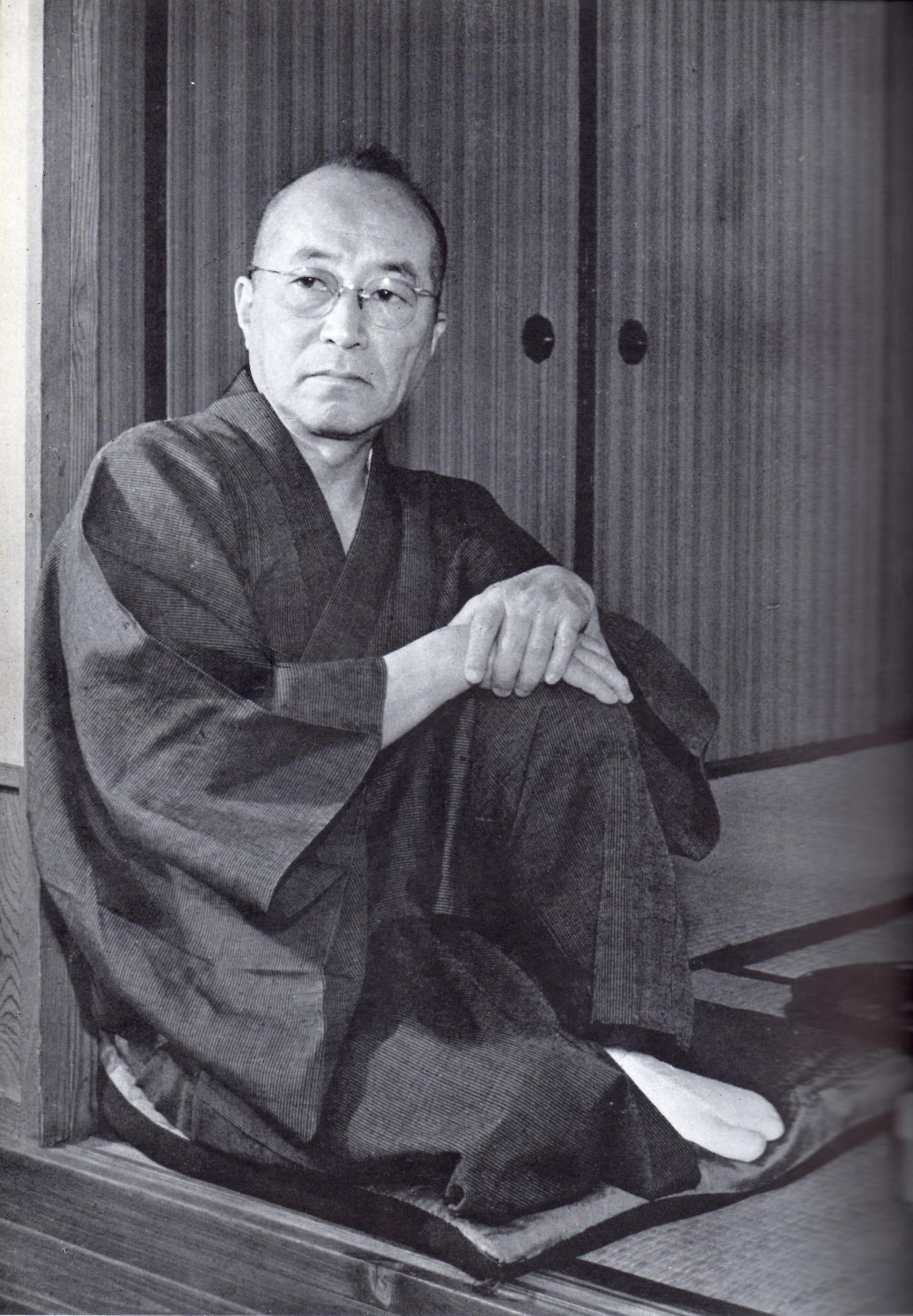 Japanese novelist, Ton Satomi (1888-1983)